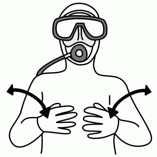 Diving sign "Breathless"